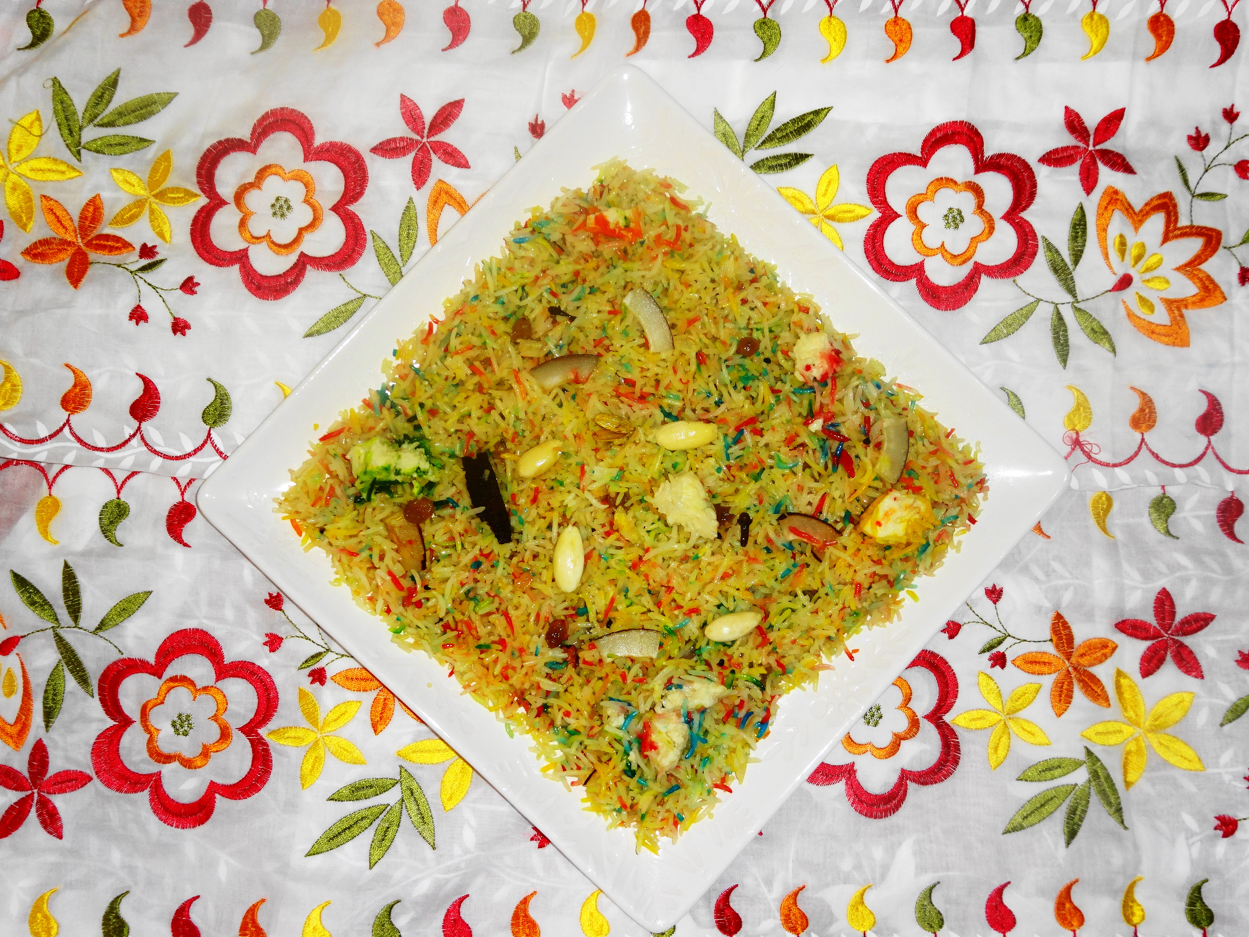 Sat Ranga Zarda, Rainbow Zarda, رنگین زردہ چاول